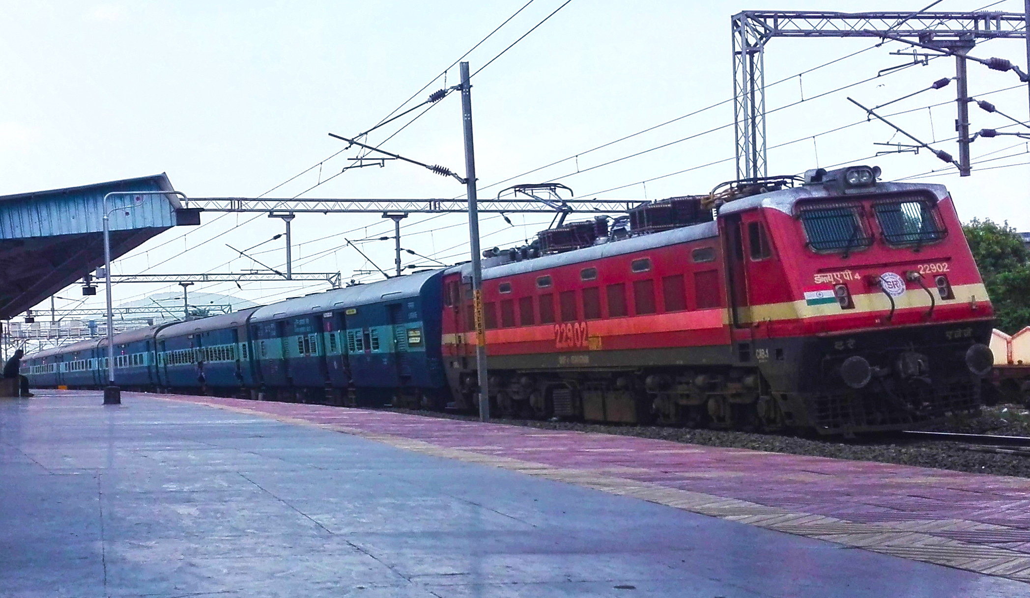 Arrakkonam WAP 4 loco in charge of Shalimar - Thiruvananthpuram Express at Anakapalle Railway station